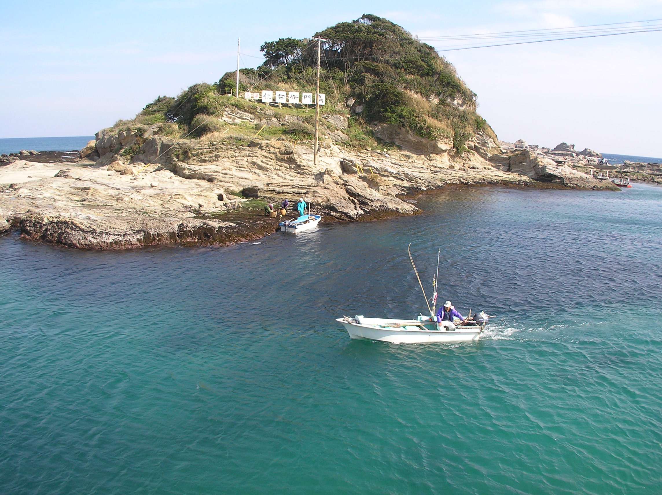 Niemonjima seen from Futomi Port, Kamogawa.